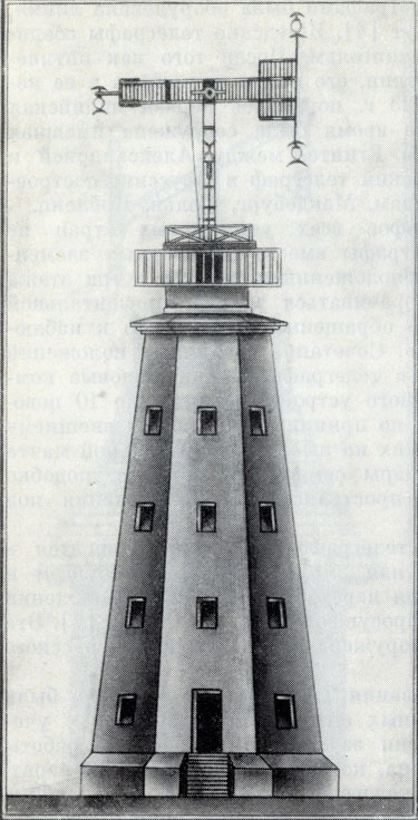 Tower of Russian optical telegraph.